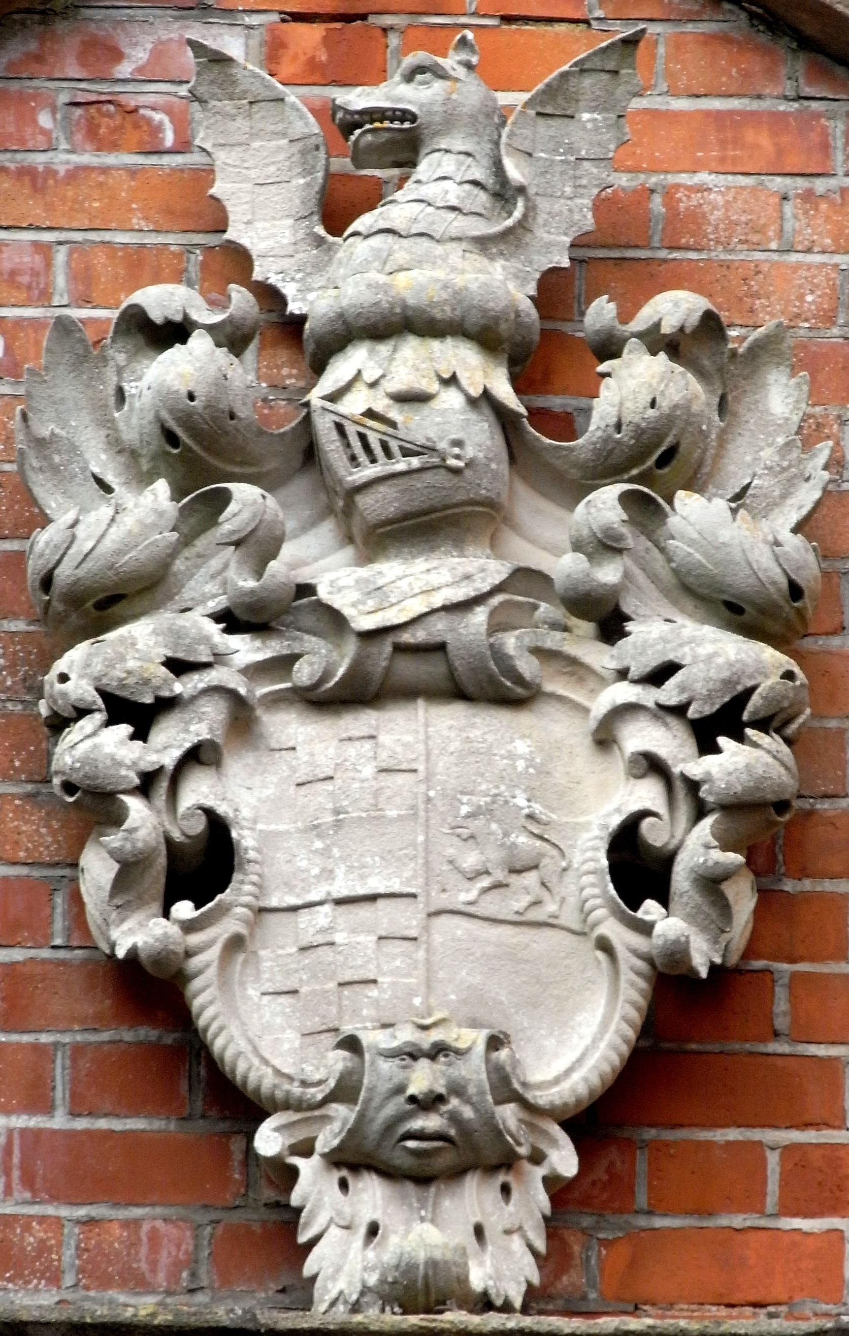 Arms of Richard II Acland (1679-1729) of Fremington House, Fremington, near Barnstaple, North Devon, MP for Barnstaple 1708-13 (Chequy argent and sable, a fesse gules), impaling the arms of his wife Susanna Lovering (d.1747), one of the two daughters and co-heiresses of John Lovering (d.1686), a wealthy merchant, of Weare Giffard (where he founded a school), Countisbury, and Hudscott, Chittlehampton, all in North Devon (Argent, on a fesse wavy azure a lion passant or). Sculpted heraldic achievement (circa 1700-1729) on pediment of brick archway to stable block, Fremington House. The crest of A demi-wyvern facing to dexter, wings displayed chequy argent and sable is the crest of Acland of Barnstaple and Fremington, which differs entirely from that of Acland of Acland, Landkey and Killerton, whilst the arms of these two families are identical.